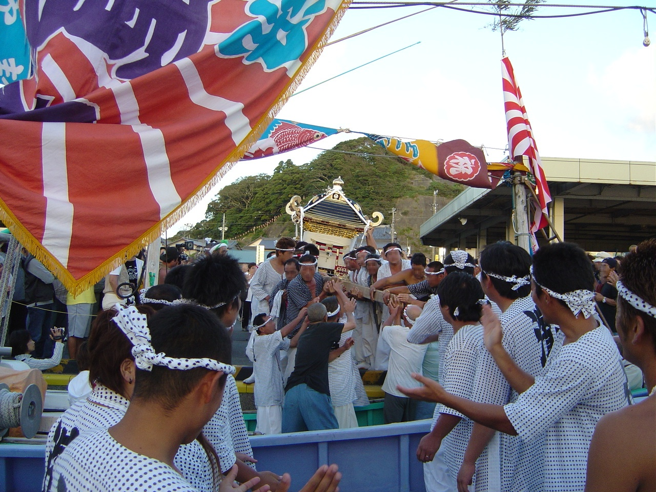 Funa-Watashi (Katsuura Autumn Festival)